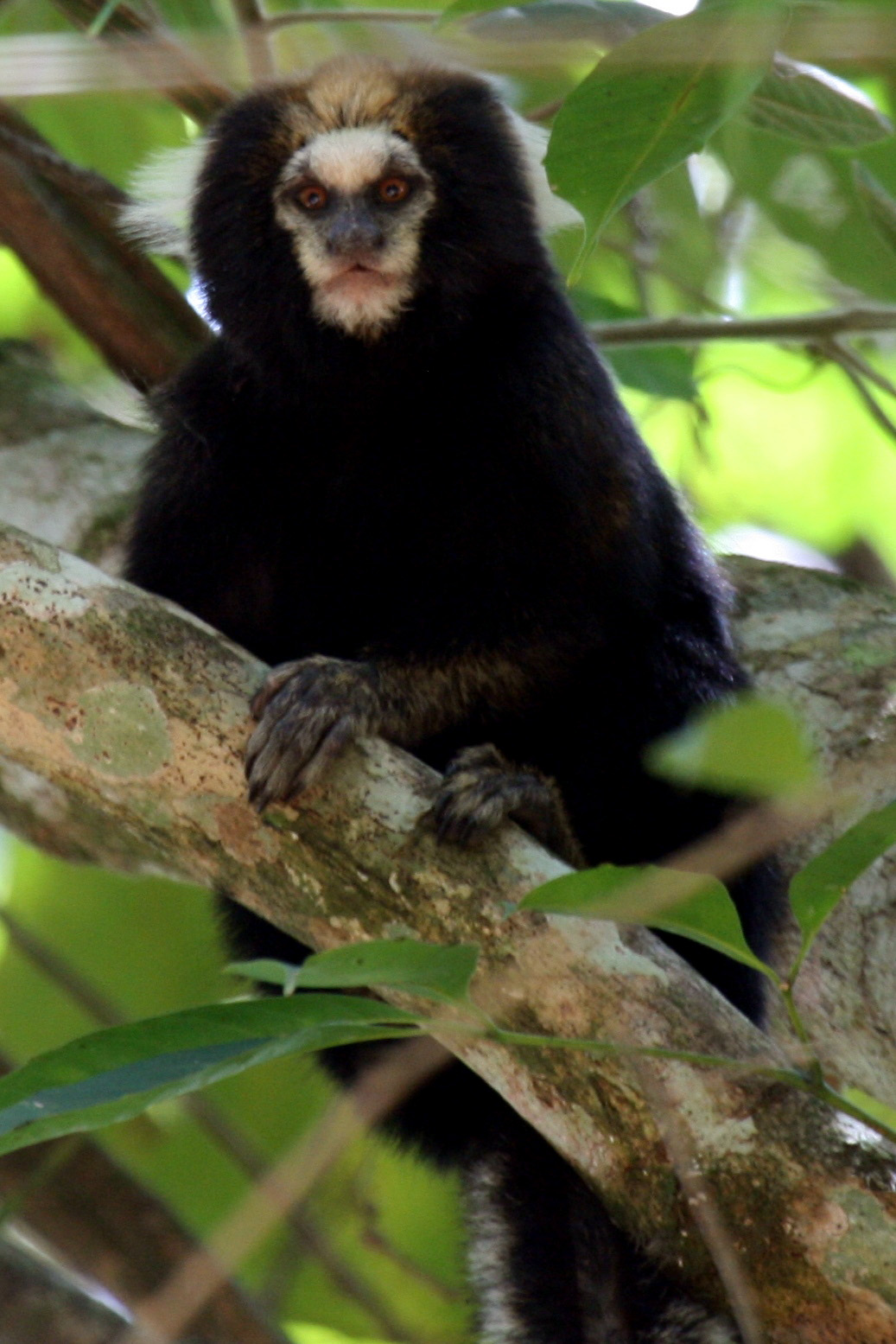 Buffy tufted marmoset (Callithrix aurita)